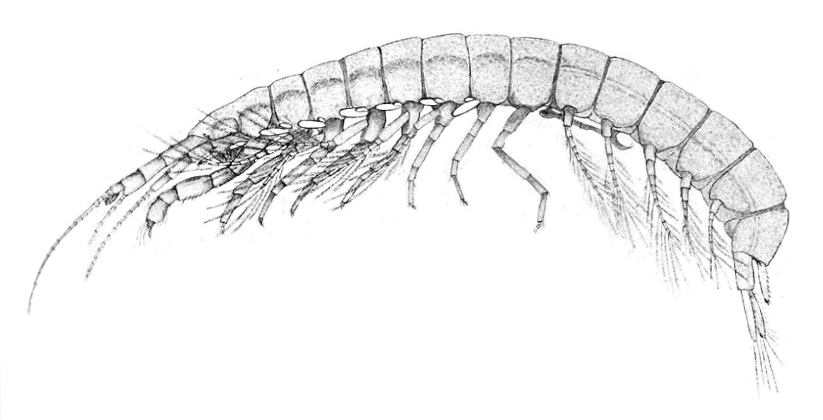 Lateral view of male Koonunga cursor (Crustacea: Anaspidacea).